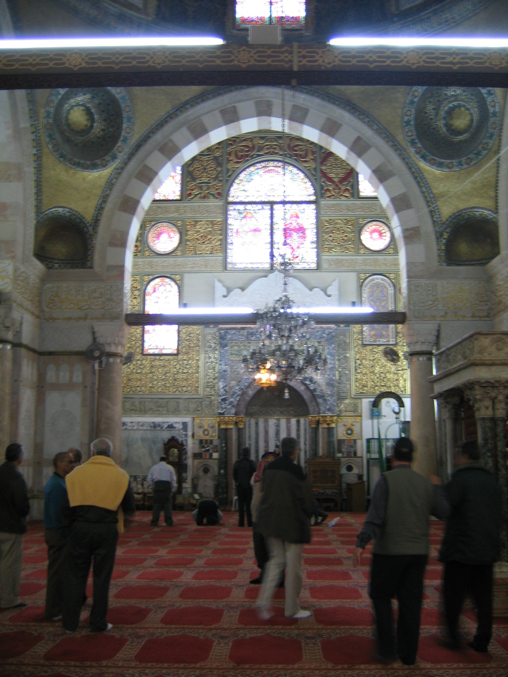 Interior of the Al Aqsa mosque on Haram al Sharif (Temple Mount) in Jerusalem.